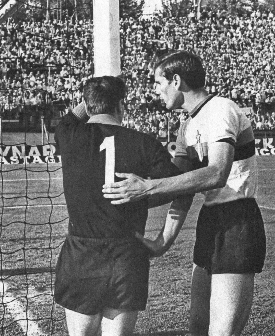 Mantua, Danilo Martelli Stadium, June 1, 1967. A.C. Mantova — Inter Milan 1-0, Italy Championship 1966–67 Serie A. From left to right: Inter Milan's goalkeeper Giuliano Sarti, desperate, is comforted by teammate Giacinto Facchetti after his resounding mistake that cost the Mantuans' decisive goal. The defeat, on the last round of the championship, also cost to Inter Milan the victory of the scudetto for the benefit of Juventus F.C.